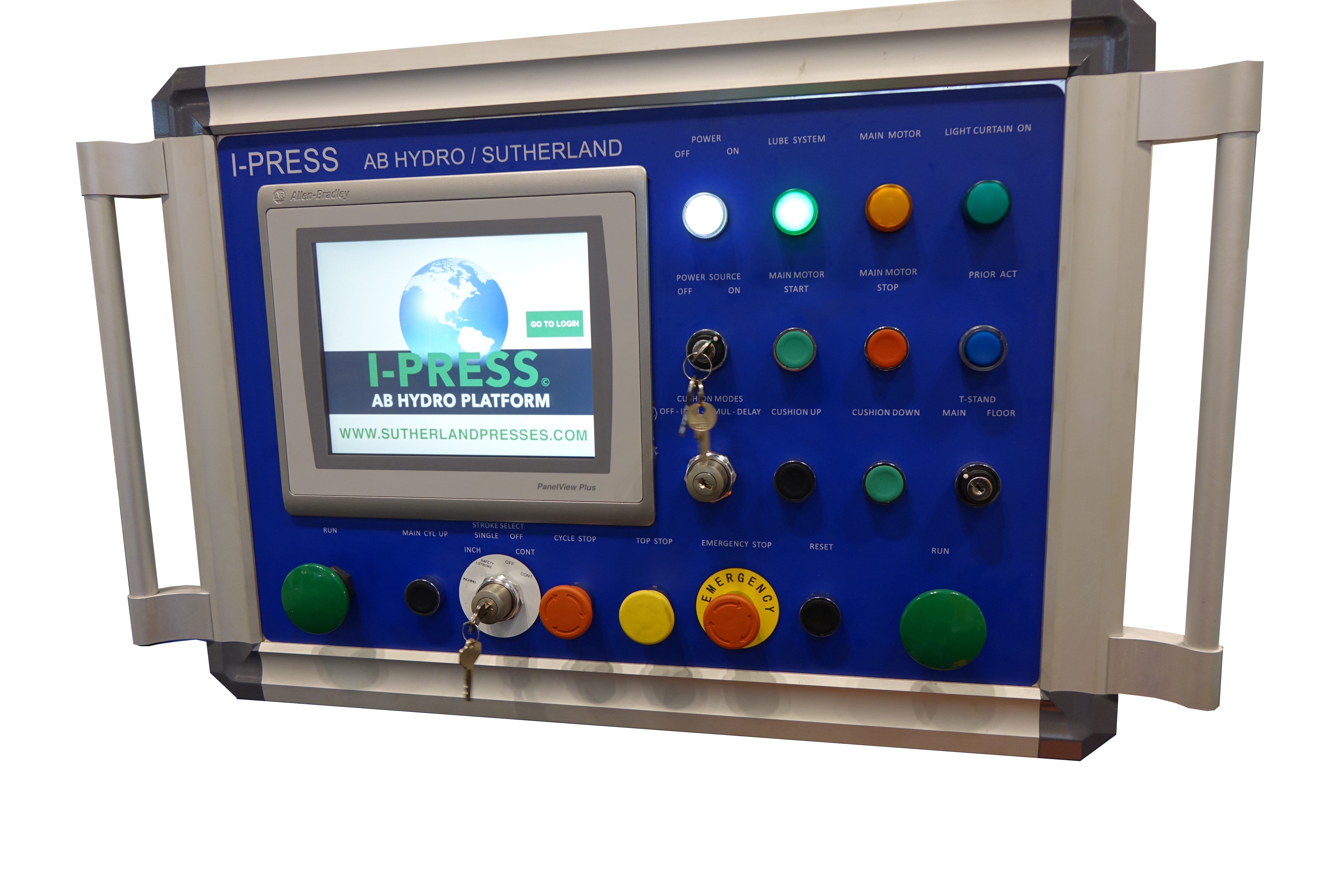 I-PRESS Connected Enterprise can capture historical data and provide reports for metal stamping companies